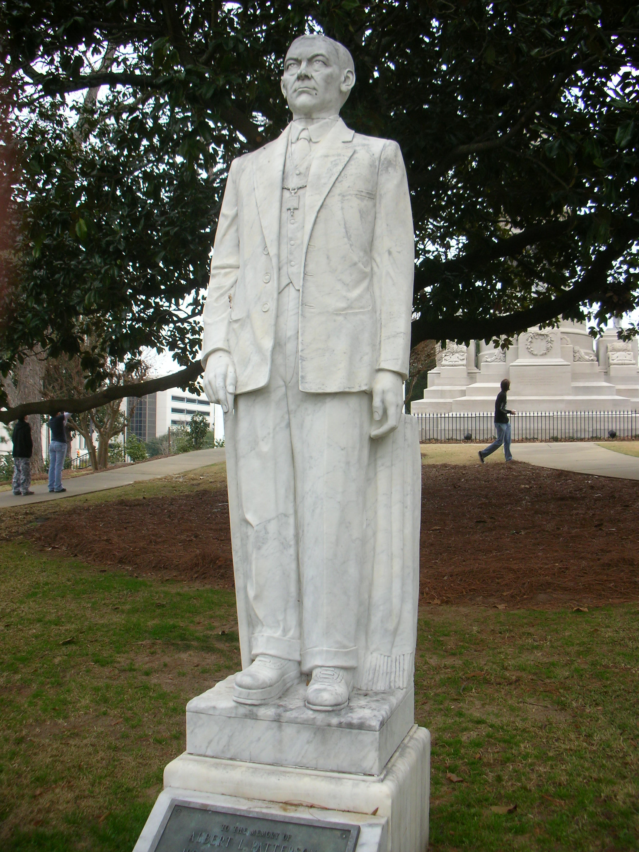 Statue of Albert Patterson (1894-1954), Alabama Attorney General, on the grounds of the Alabama State Capitol building.